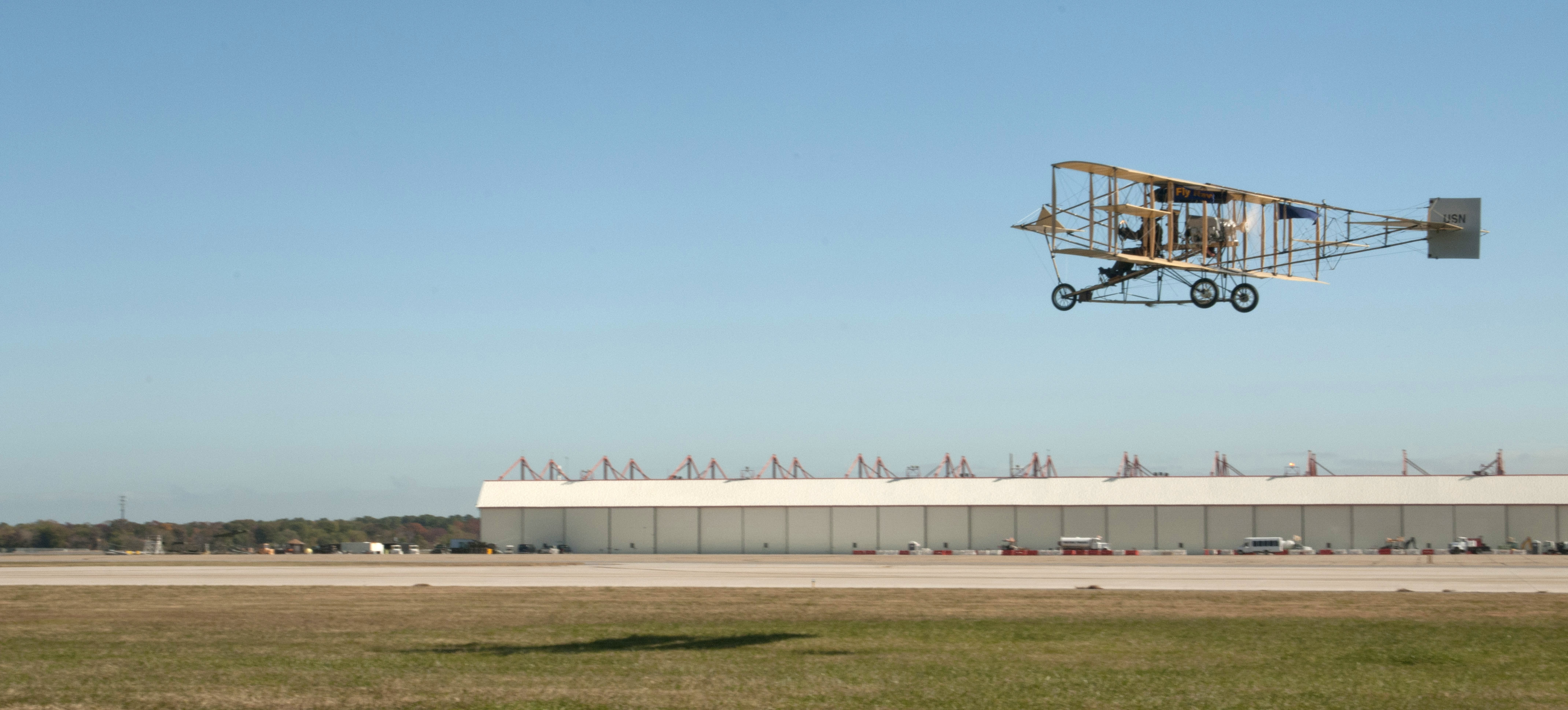 NORFOLK, Va. (Nov. 12, 2010) Retired Navy Cmdr. Bob Coolbaugh, pilots his replica Ely-Curtiss Pusher aircraft on board Naval Station Norfolk, as part of a ceremony to commemorate 100 years of naval aviation. The orginal Curtis Pusher flown by Eugene Ely took off from the light cruiser USS Birmingham on Nov. 14, 1910 marking the beginning of Naval Aviation. (U.S. Navy photo by Mass Communication Specialist 3rd Class Richard J. Stevens/Released)